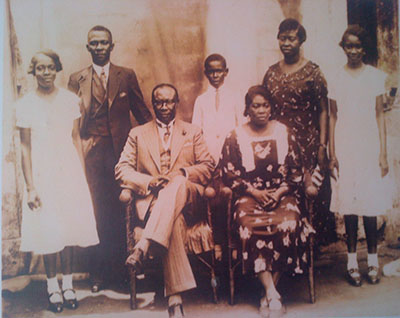 Justice S.B Rhodes and his family at their Igbosere Residence 1938